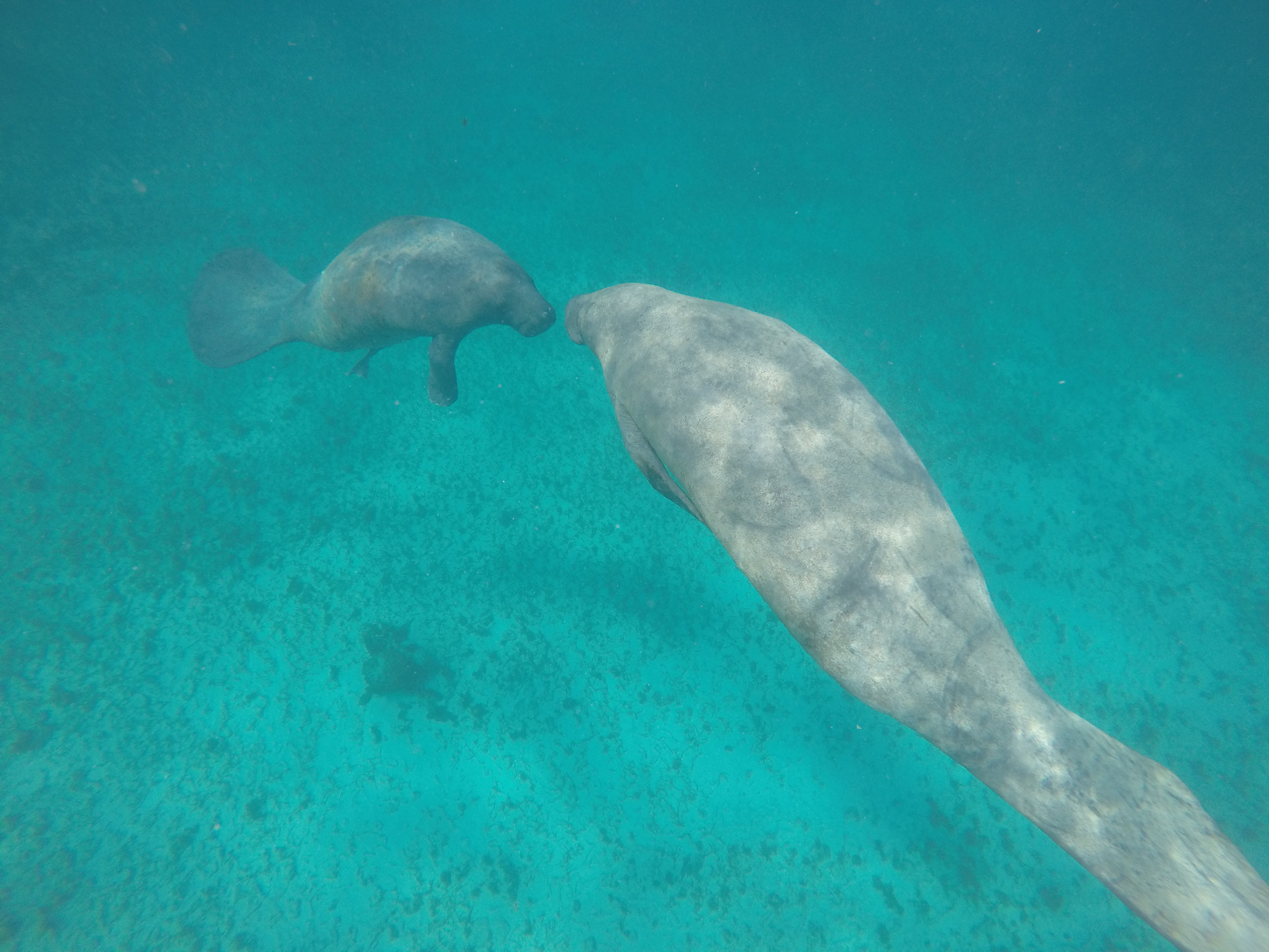 manate near Caye Caulker island,belize.